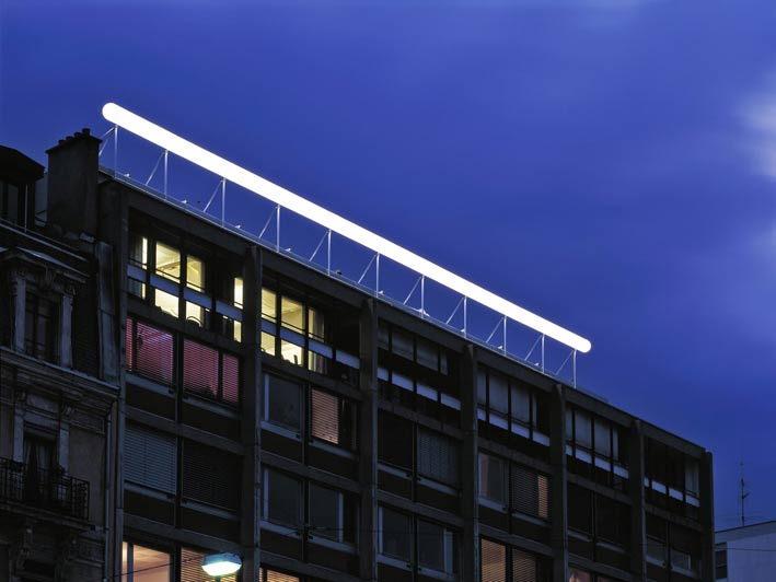 Breath is a luminous artwork by Jèrôme Leuba , on a roof around the Plaine de Plainpalais Geneva, Switzerland. A Public art project by the FMAC and FCAC.